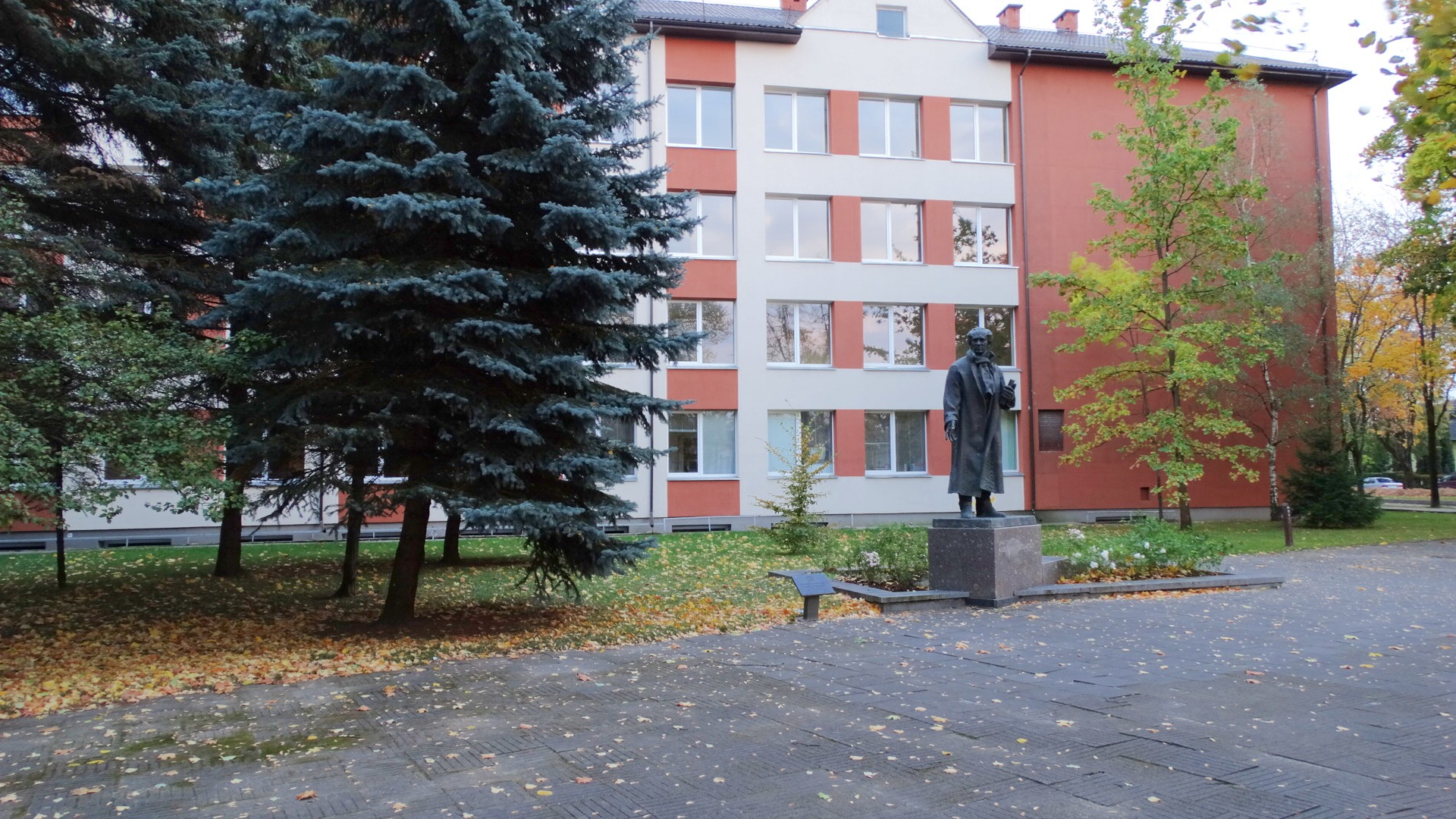 Adolfas Ramanauskas-Vanagas Gymnasium, Alytus, Lithuania